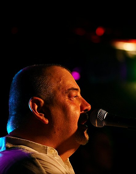 Stanisław Sojka playing at "Pod Palma" students' club, Rzeszow, Poland (2006).